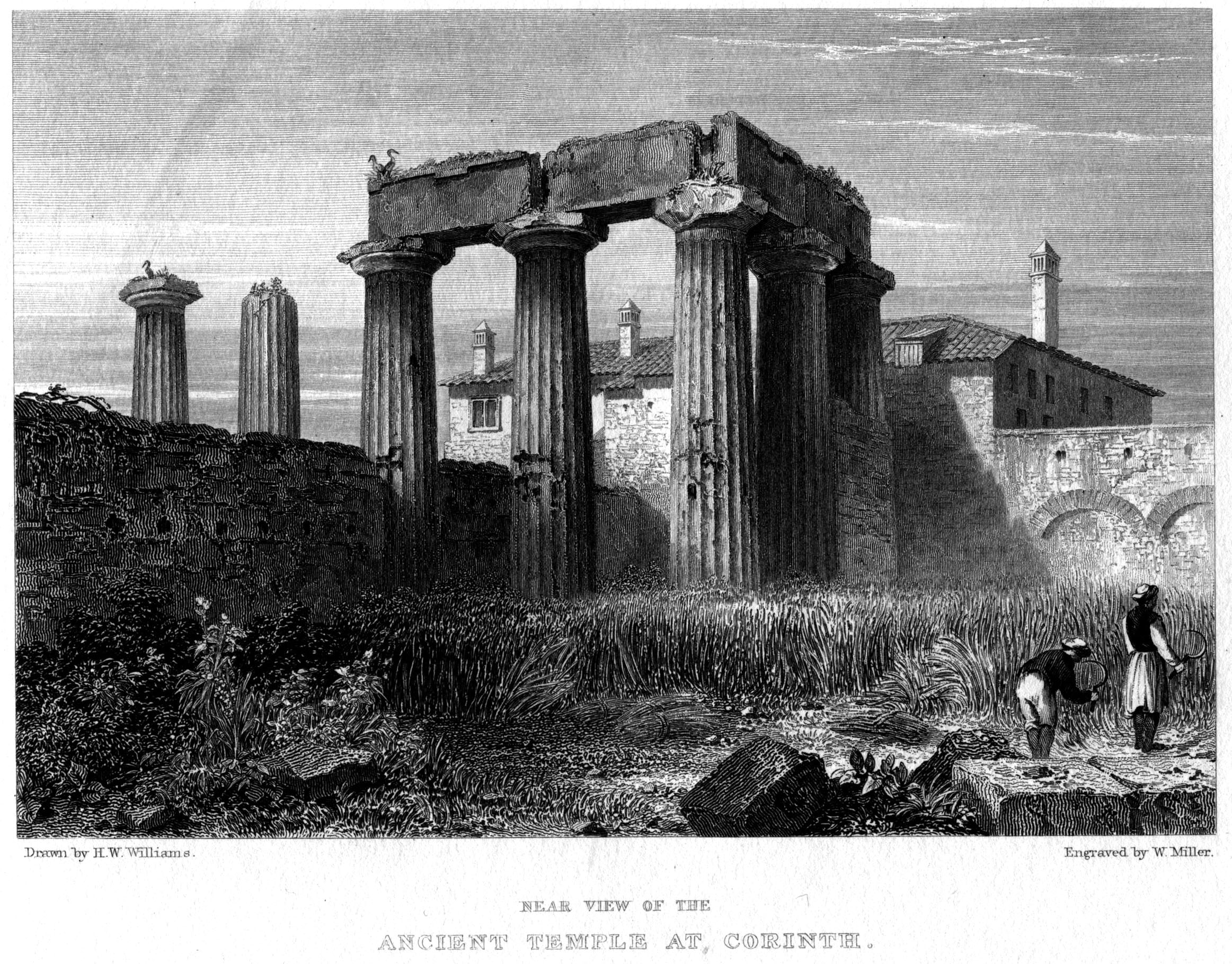 Ancient Temple at Corinth engraving by William Miller after H W Williams (Miller paid £17-17-0 in iii 1827 for engraving), published in Select Views In Greece With Classical Illustrations. Williams, Hugh William. London: Longman Rees Orme Brown and Green; and Adam Black. 1829